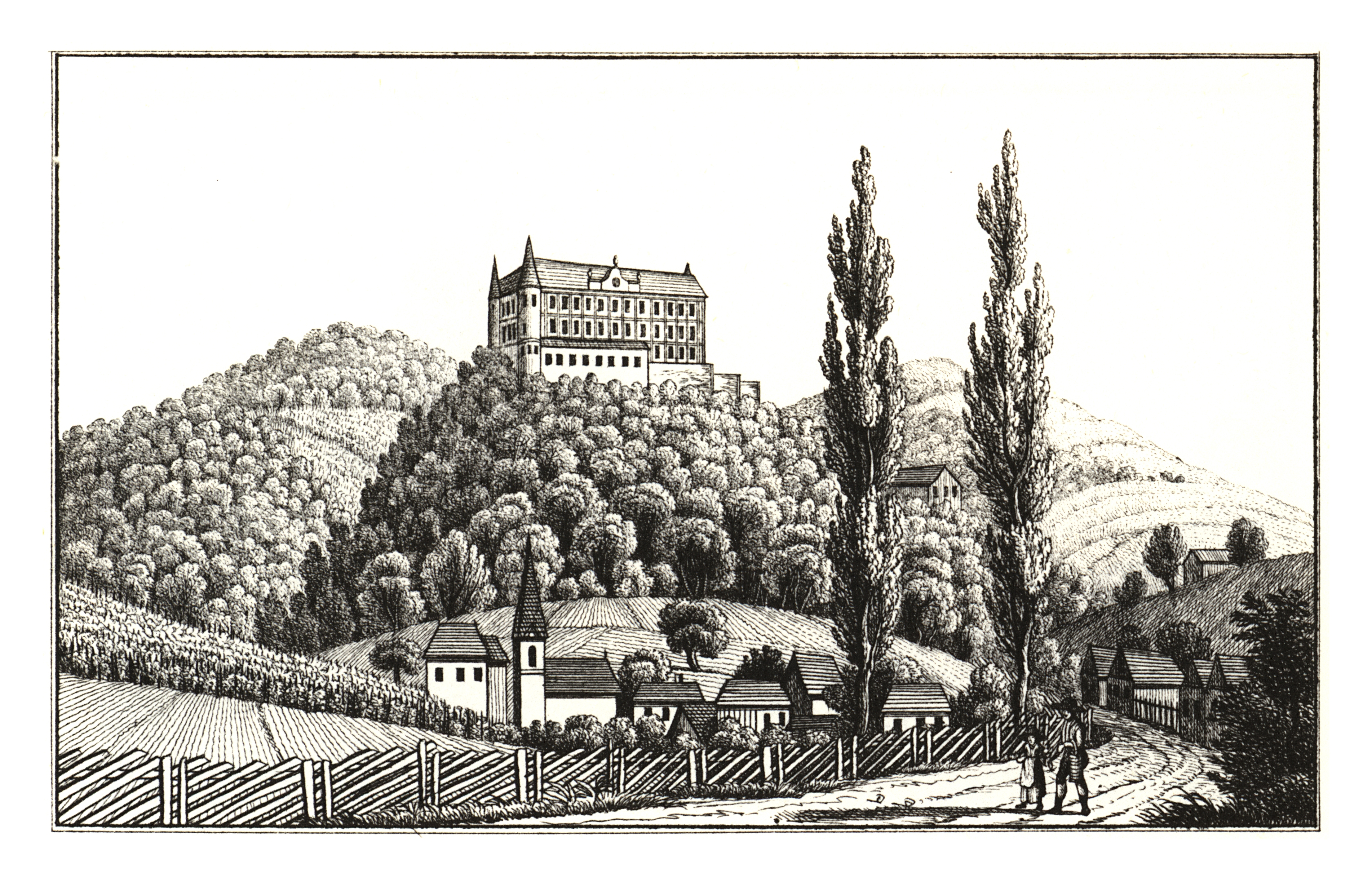 J. F. Kaiser - lithographirte Ansichten der Steyermärkischen Städte, Märkte und Schlösser, Graz 1824-1833 Joseph Franz Kaiser (1786–1859) Alternative names J. F. KaiserDescriptionAustrian printer and editorDate of birth/death 11 March 1786 19 September 1859Location of birth/death Graz (Styria) GrazAuthority control : Q1499963 VIAF: 30629353 ISNI: 0000 0000 3083 0153 LCCN: n87141671 GND: 129880159 NLP: A24960305 WorldCat creator QS:P170,Q1499963 . Scanprojekt Community Projektbudget 2012 This scan or this PDF-file was created within the GLAM-project Bookscanning, supported by Wikimedia Germany and Wikimedia Austria as a part of the community-project to capture books, documents and pictures which are not eligible to copyright or for which the copyright has expired. This document describes or depicts an object which is located in Austria today. Send requests for uncompressed scans to Hubertl. This work is in the public domain in its country of origin and other countries and areas where the copyright term is the author's life plus 100 years or fewer. You must also include a United States public domain tag to indicate why this work is in the public domain in the United States. This file has been identified as being free of known restrictions under copyright law, including all related and neighboring rights.